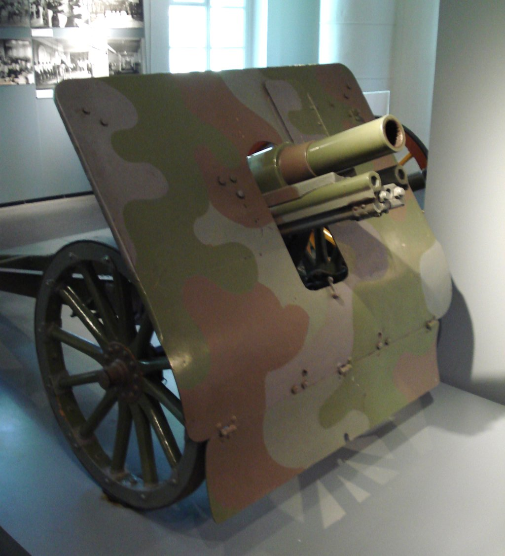 Russian Model 1913 76 mm Mountain Gun in Finnish Artillery Museum. Museum description states that this particular gun is a combination of a Russian barrel and a carriage manufactured in Finland in the 1920s, but it is practically indistinguishable from the original Model 1913 gun.